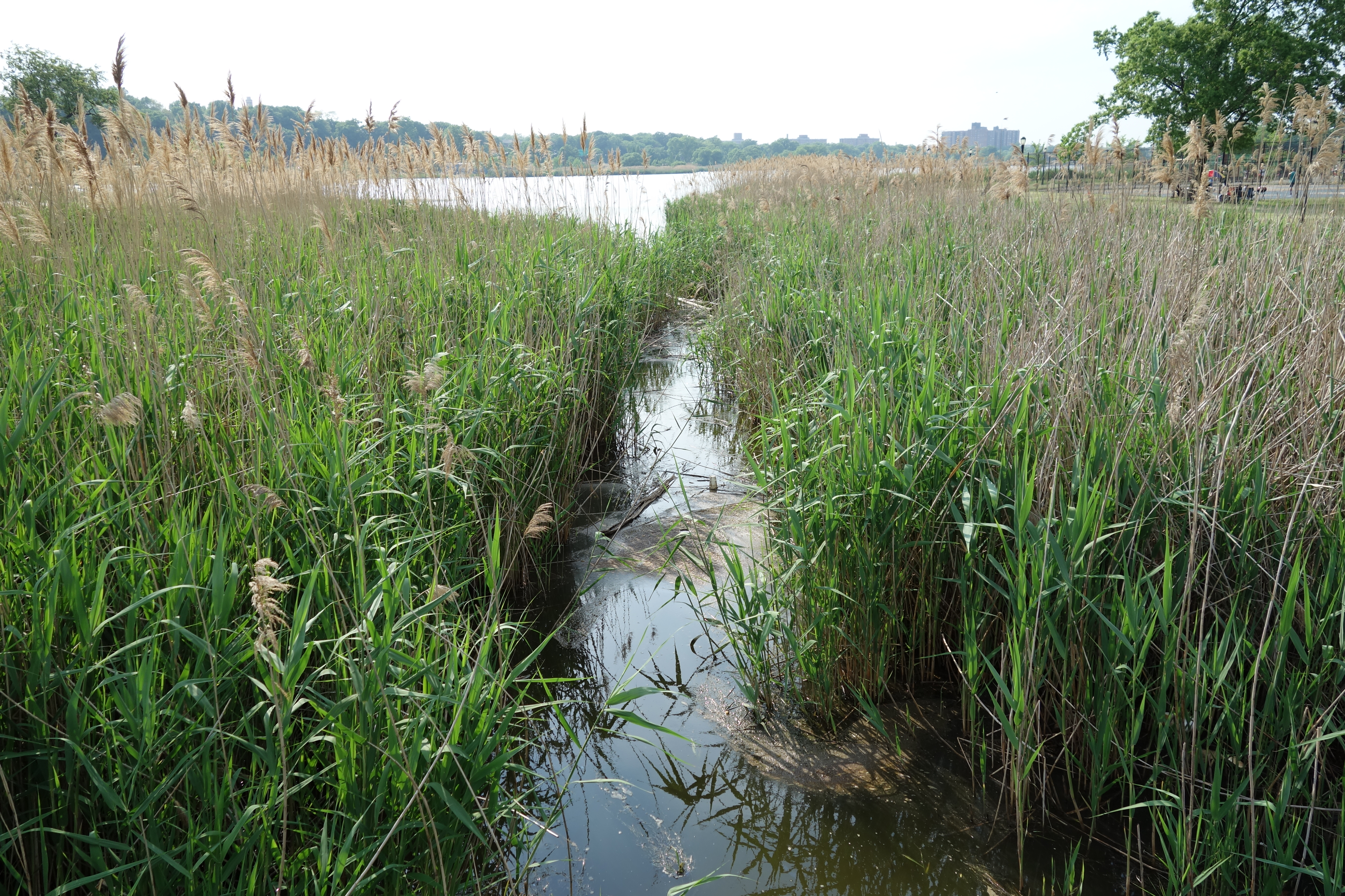 Looking north towards Meadow Lake from the bridge over the inlet along the Flushing Creek/Flushing River system between Willow Lake and Meadow Lake in the Meadow Lake section of Flushing Meadows–Corona Park, on Meadow Lake Drive near Jewel Avenue / 69th Road between Forest Hills and Queensboro Hill, Queens. The lakes were created as both recreational lakes and storm water basins, today taking runoff from the adjacent highways, and (some) sewage from the Kissena Corridor Sewer which serves much of Northeast Queens.